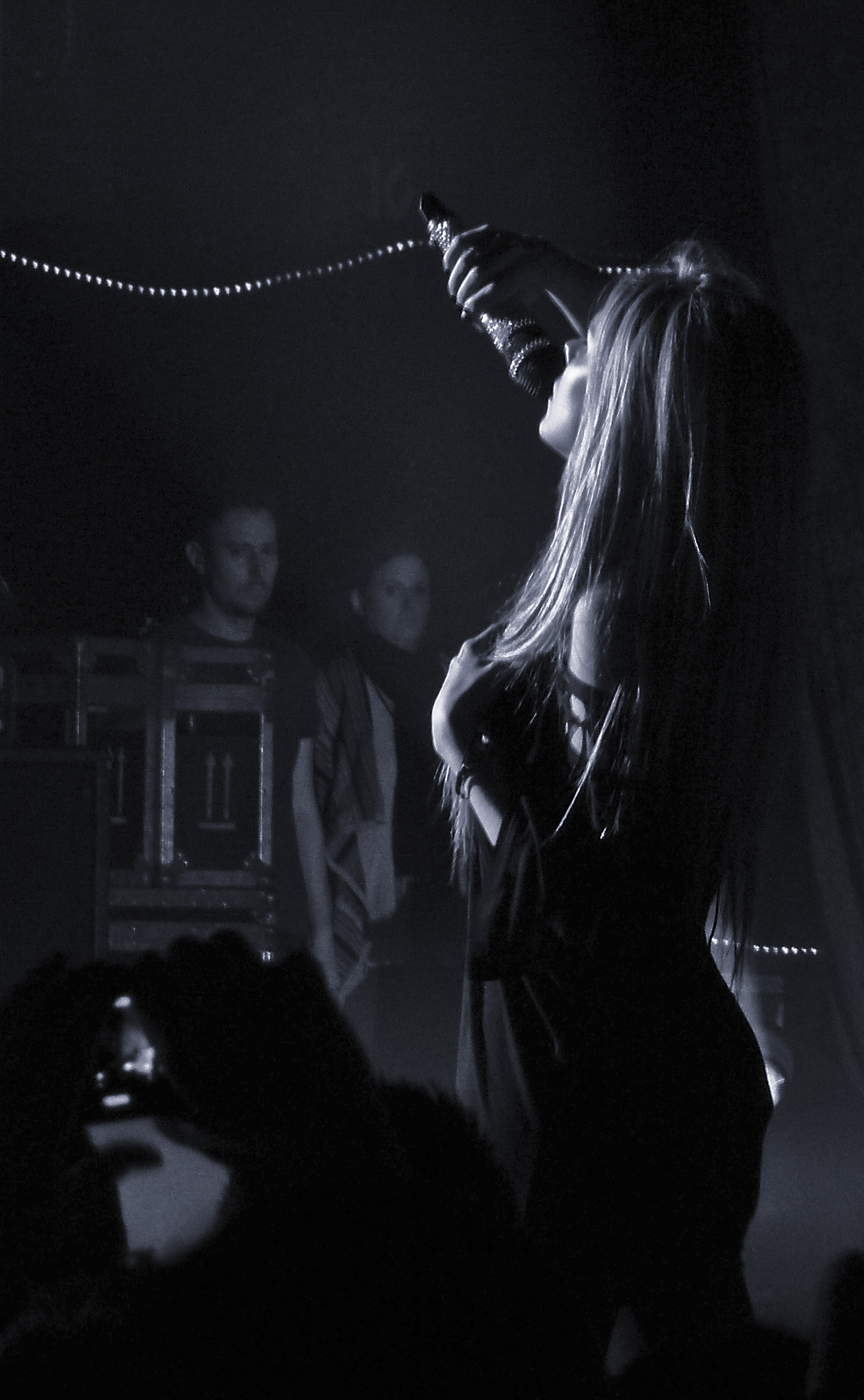 Avril Lavigne singing to the crowd in Hammersmith, London, England, during her Black Star Tour on September 21, 2011. Photographed on a Panasonic DMC-TZ5.